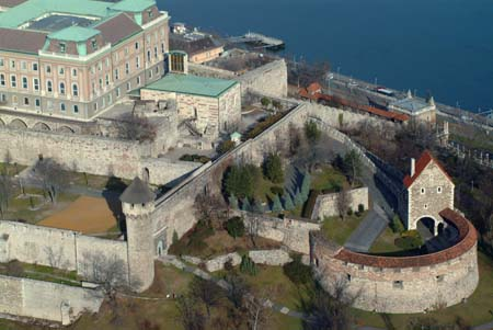 Buda castle, Budapest, Hungary, aerial photography